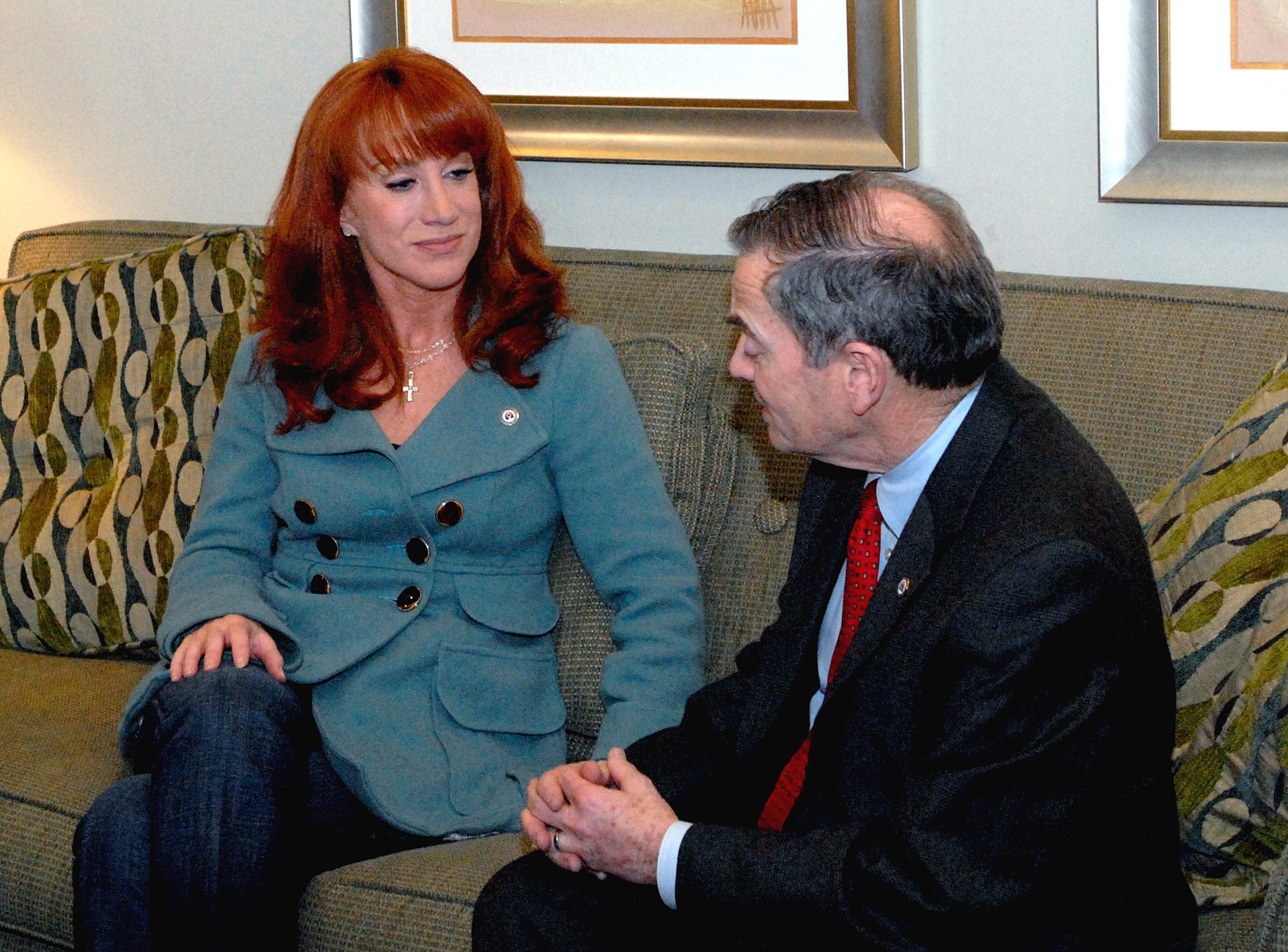 Jim Weiskopf, executive vice president of communications for Fisher House Foundation, gives comedienne Kathy Griffin a brief history of the foundation during her visit to Walter Reed Army Medical Center to visit servicemembers and their families, April 3, 2008. Griffin hosts "My Life on the D List," which airs on Bravo cable television network.